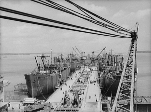 Fitting out of Liberty ships at the New England Shipbuilding Corporation, South Portland, Maine (USA) in August 1942. Original caption: “Ship launching in Portland, Maine. Some of the five British cargo-carrying ships built under lend-lease at a large New England yard and launched along with two destroyers and one liberty ship at a record breaking mass launching on August 16, 1942.”